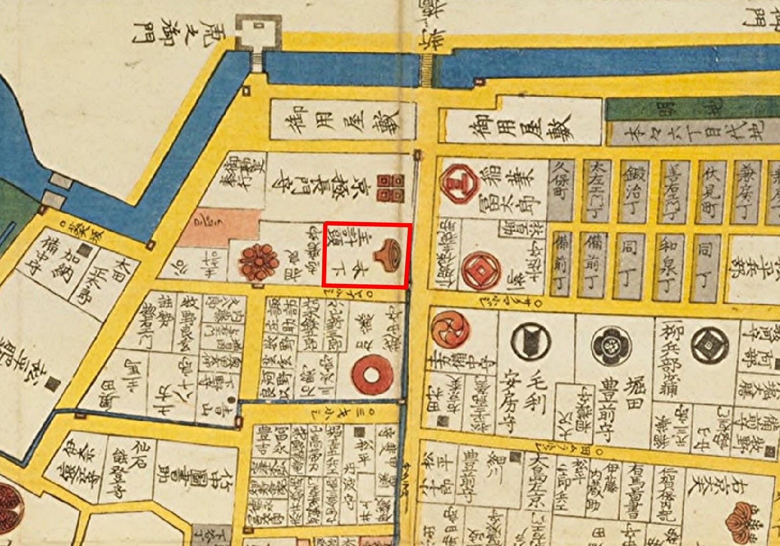 Residence of Hiji-Kinoshita clan at Edo